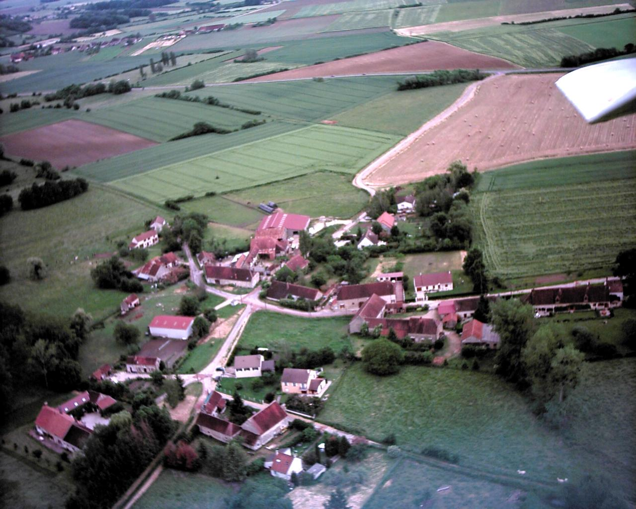 CHAINQ